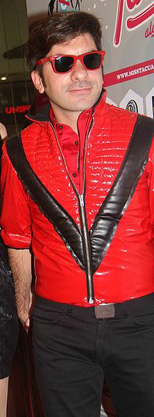 Actor Martín Sastre